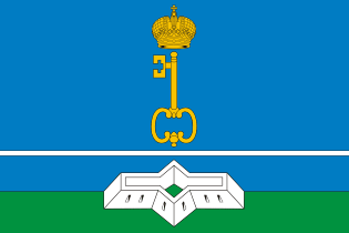 Flag of Shlisselburg, Leningrad Region, Russia